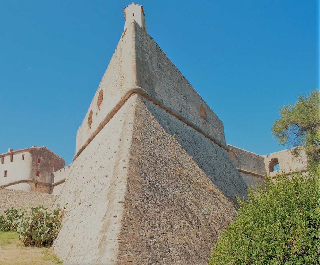 A photo taken in the grounds of Fort Carre